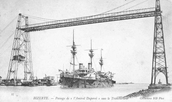 The Bizerta Transporter Bridge, Tunisia